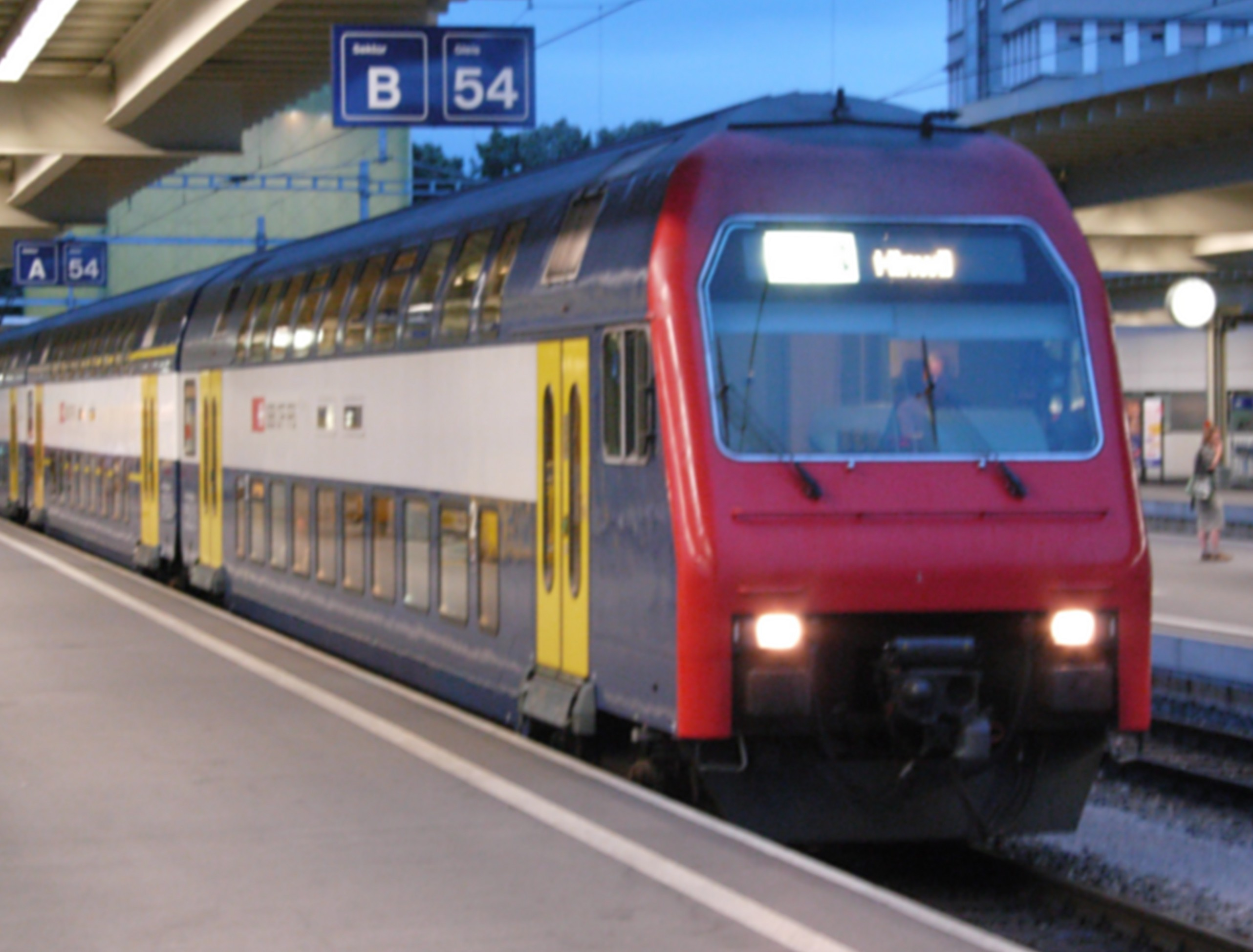 Control car Bt of the SBB (Re 450 S-Bahn trainset) in Zürich HB.